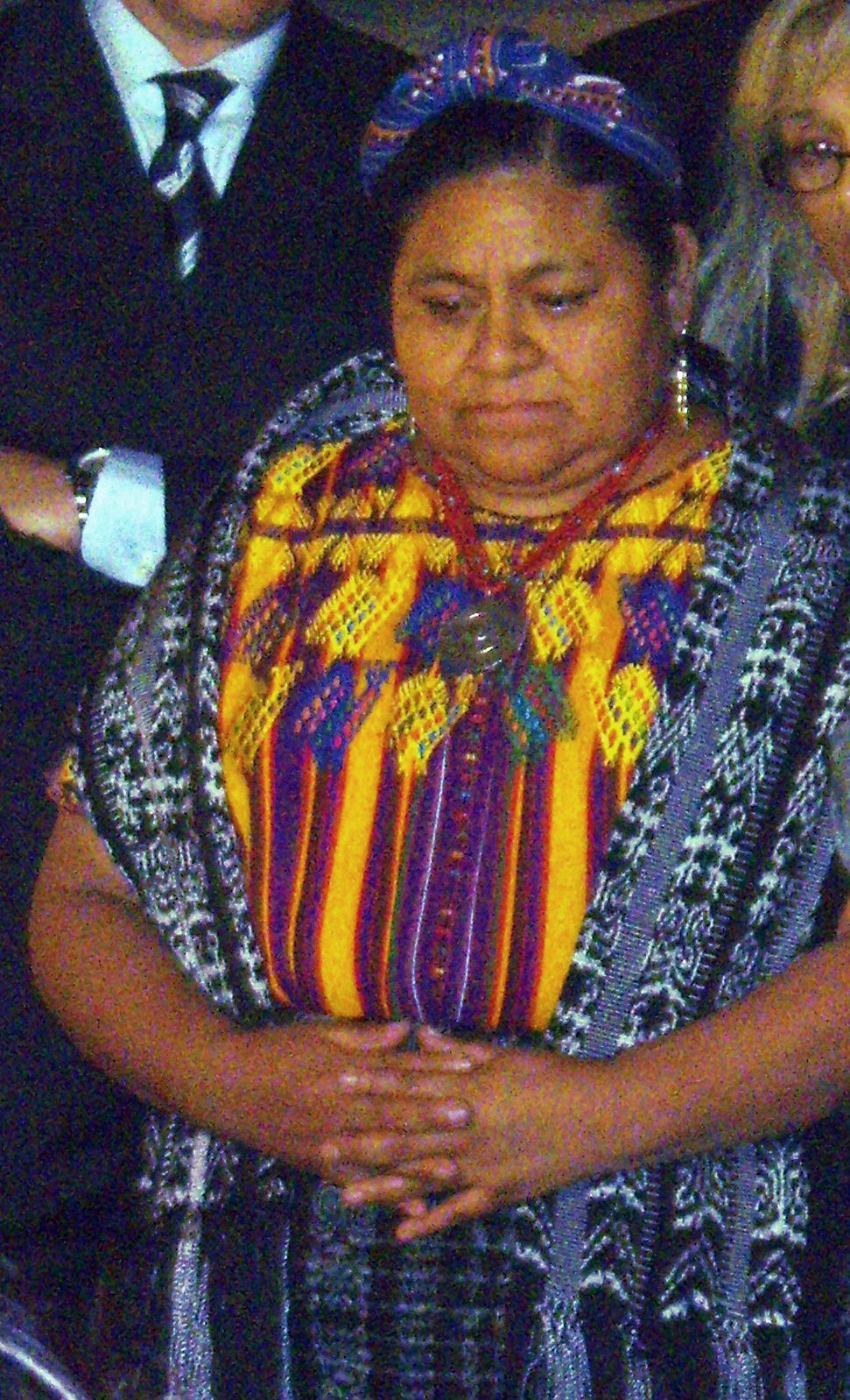 Nobel Peace Prize winner Rigoberta Menchú Tum in Acaya, Province of Lecce (Italy), at the opening press conference of the International Forum of Peace